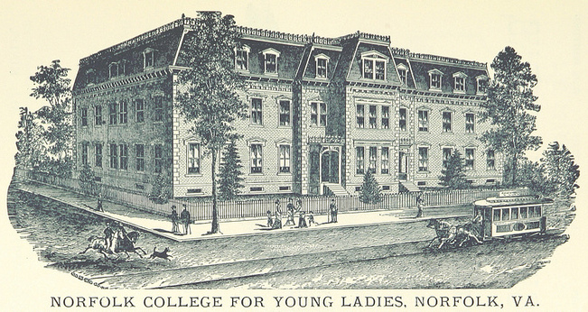 Line drawing of the Norfolk College for Young Ladies building in Norfolk, VA.